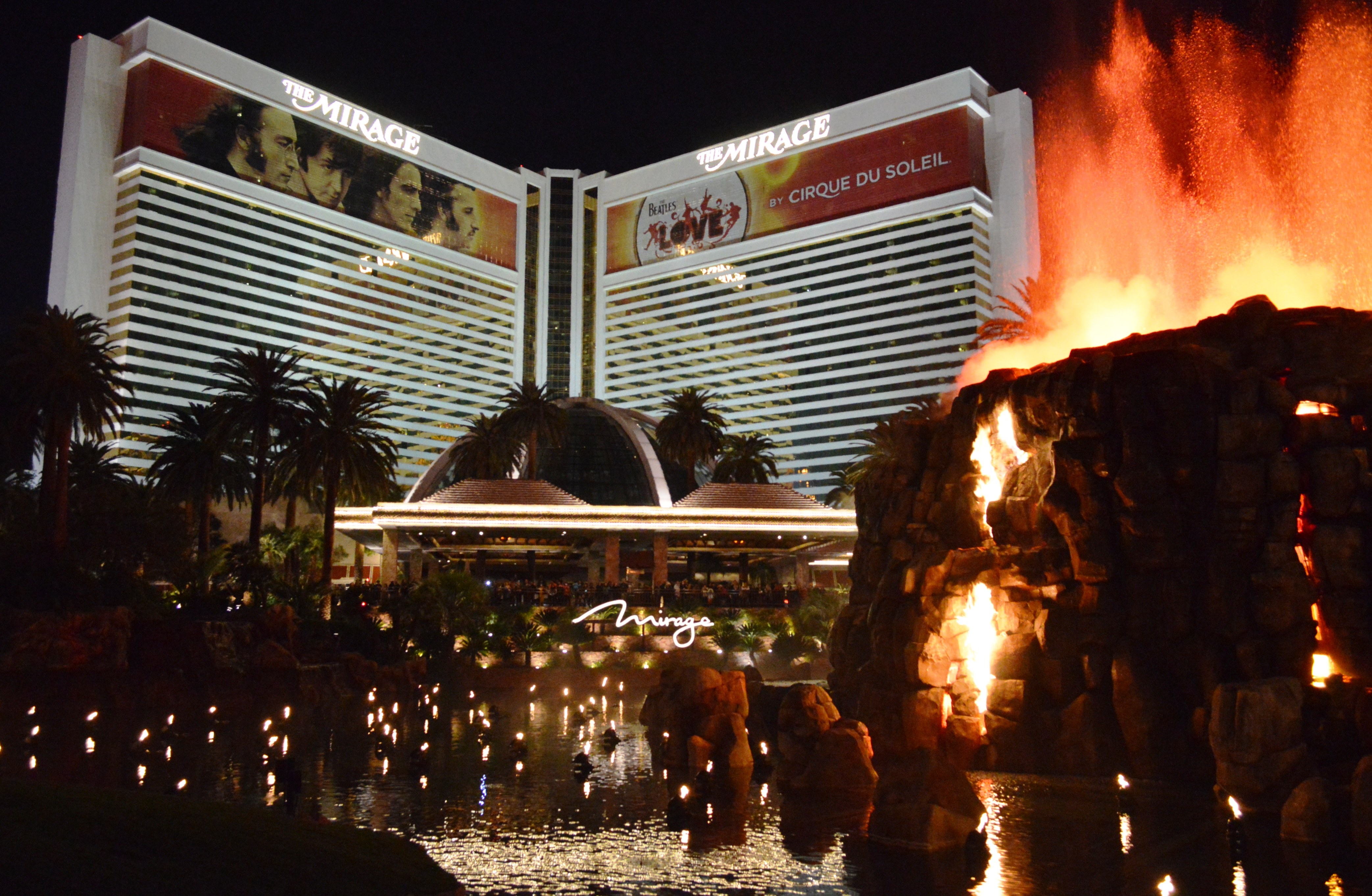 The "Volcano" show at The Mirage on the Las Vegas Strip.